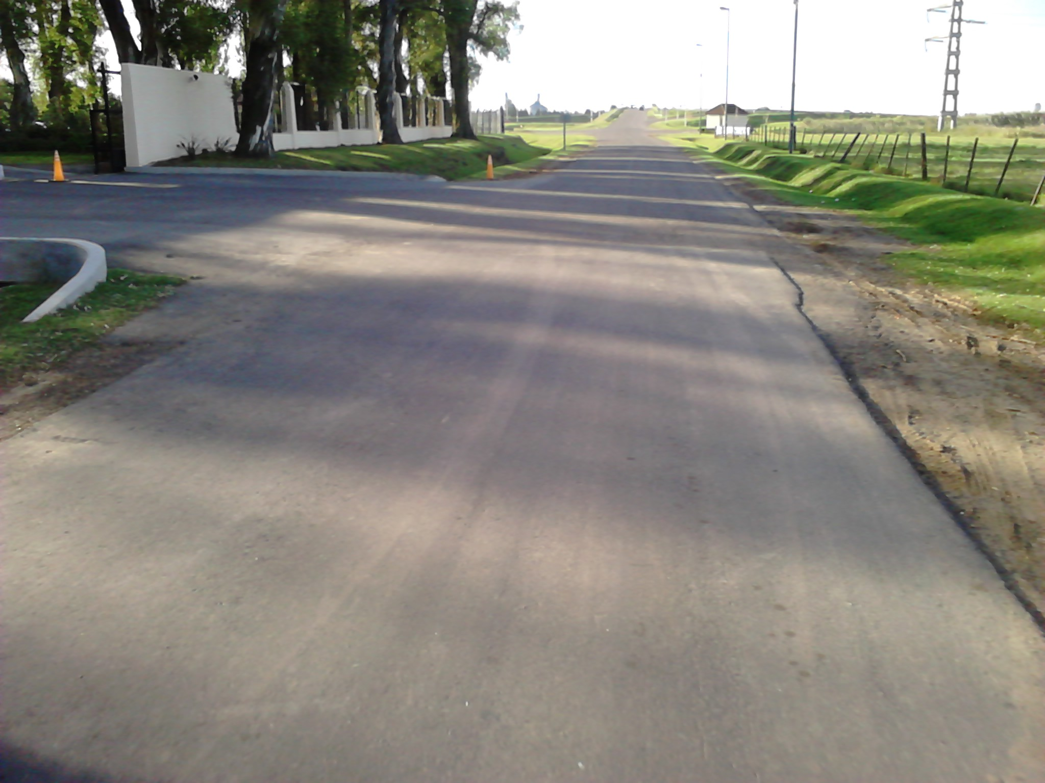 Entrance to Kentucky